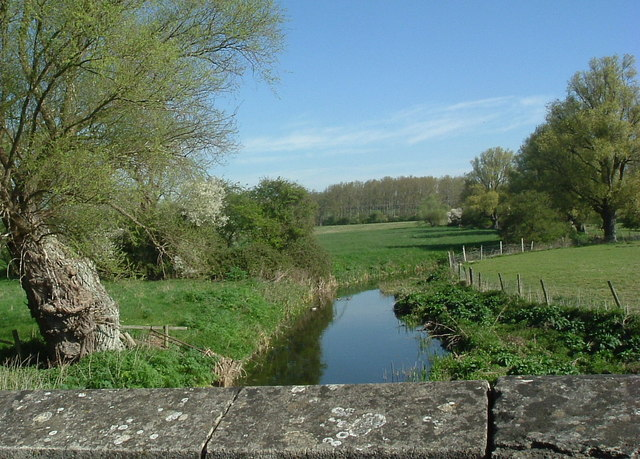 The river Kym